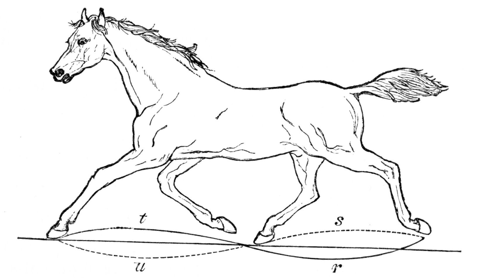 Horse in the act of trotting